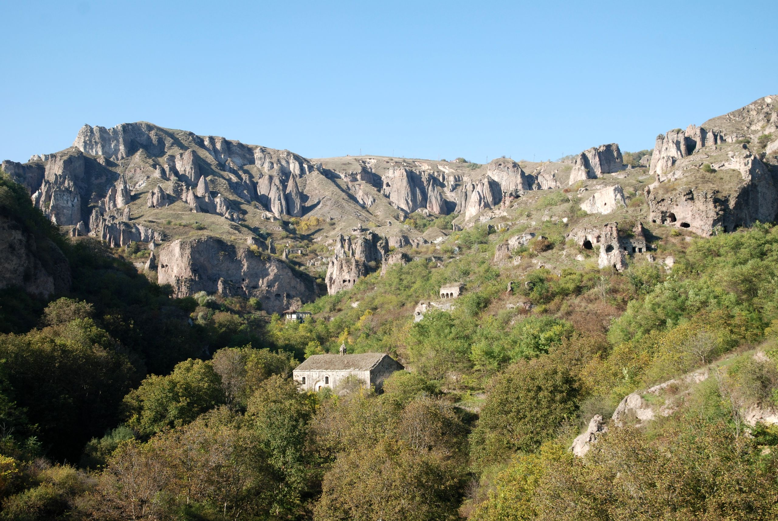 Khndzoresk, Hripsime church in valley